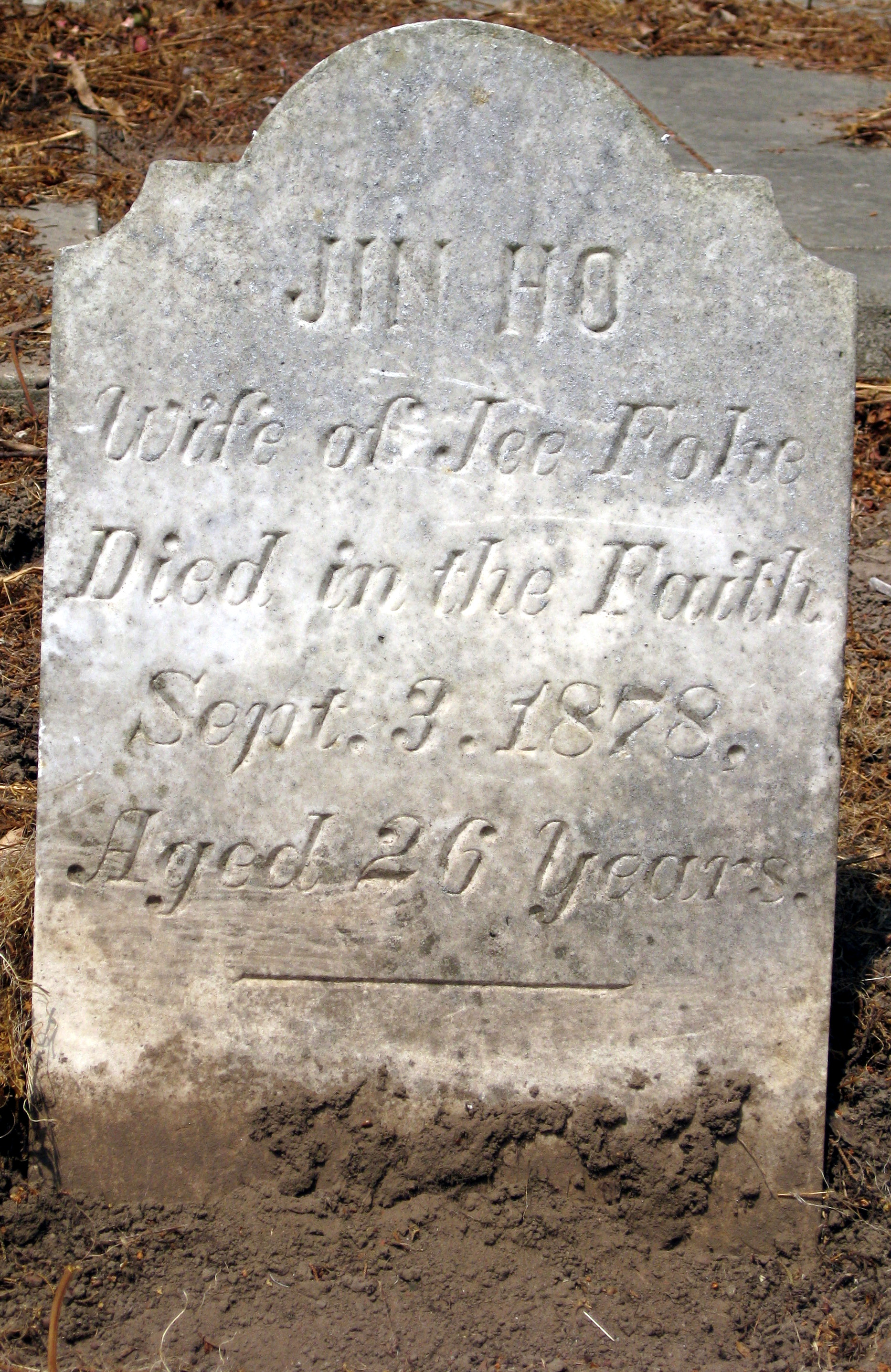 Tombstone of Jin Ho, the first Methodist convert of Rev. Otis Gibson. The picture was taken at Chinese Christian Cemetery of San Fransisco.